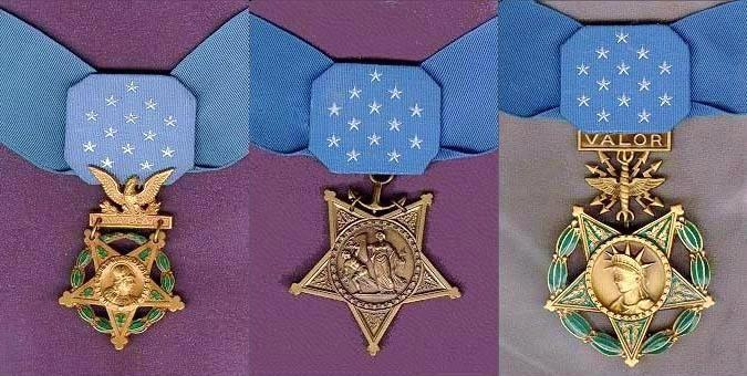 The Medals of Honor awarded by each of the three branches of the U.S. military, and are, from left to right, the Army, Coast Guard/Navy/Marine Corps and Air Force.